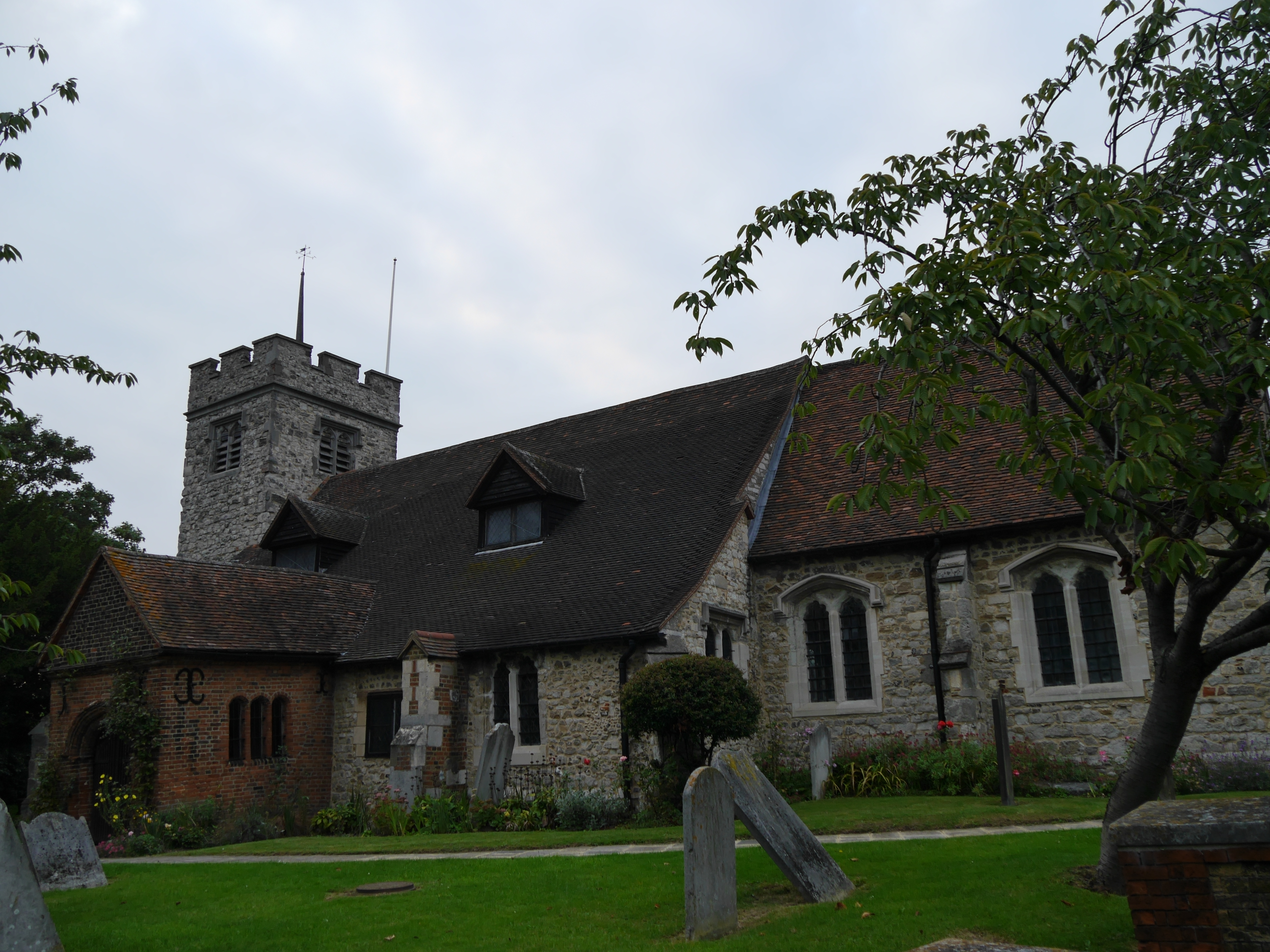 All Saints' parish church, Chingford